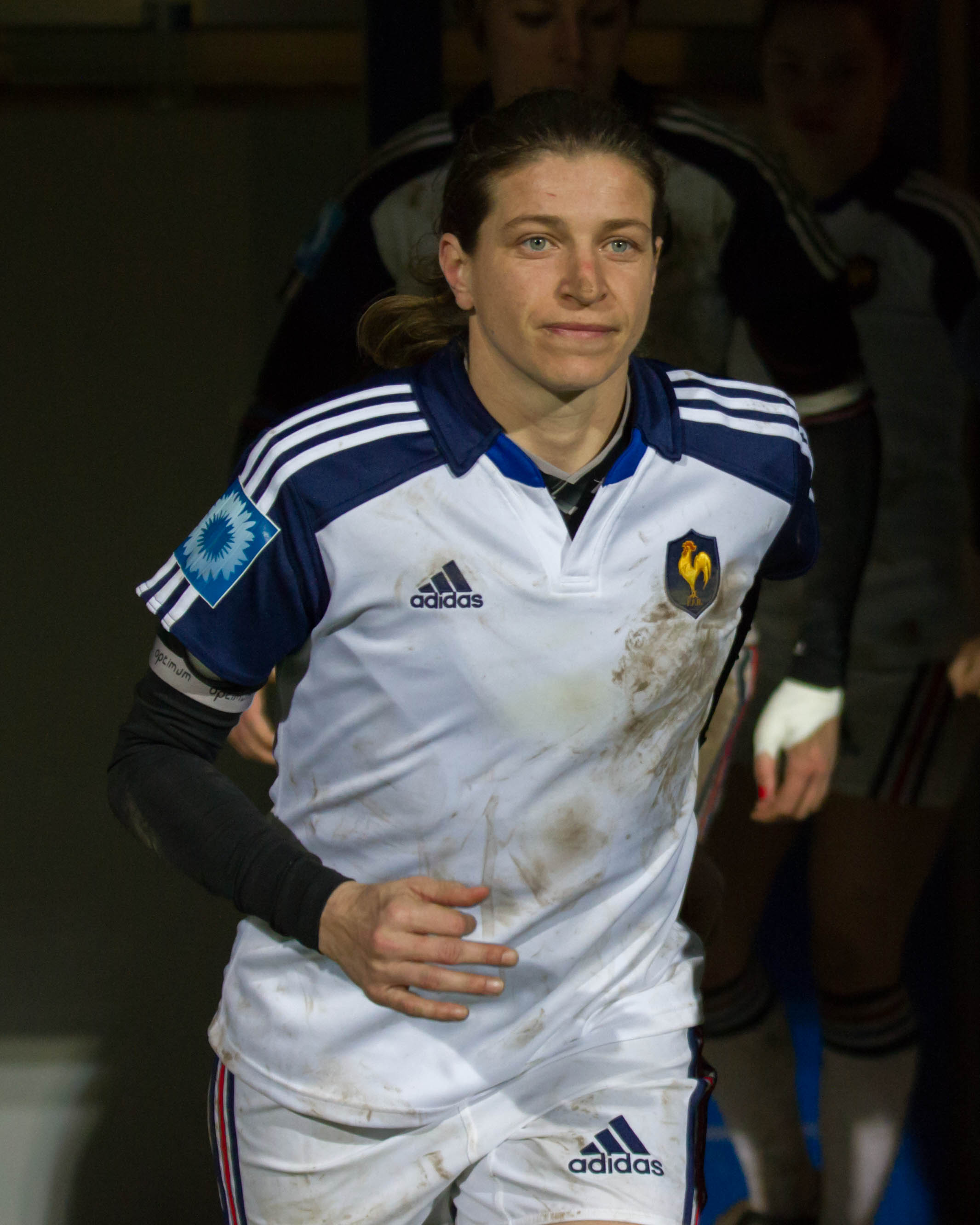 2014 Women's Six Nations Championship — 9 February 2014, Stade Ernest Argeles. Match between: France women's national rugby union team — Italy women's national rugby union team